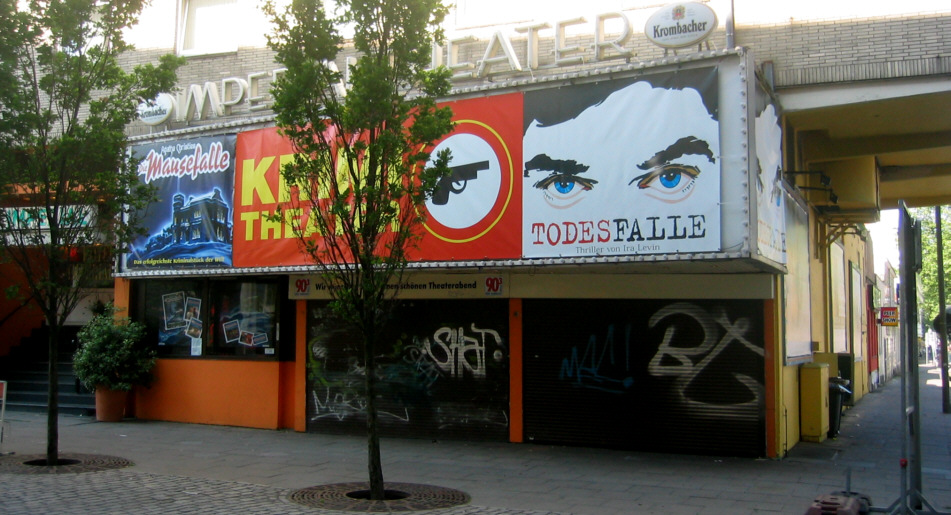 Hamburg, Germany: Imperial-Theater